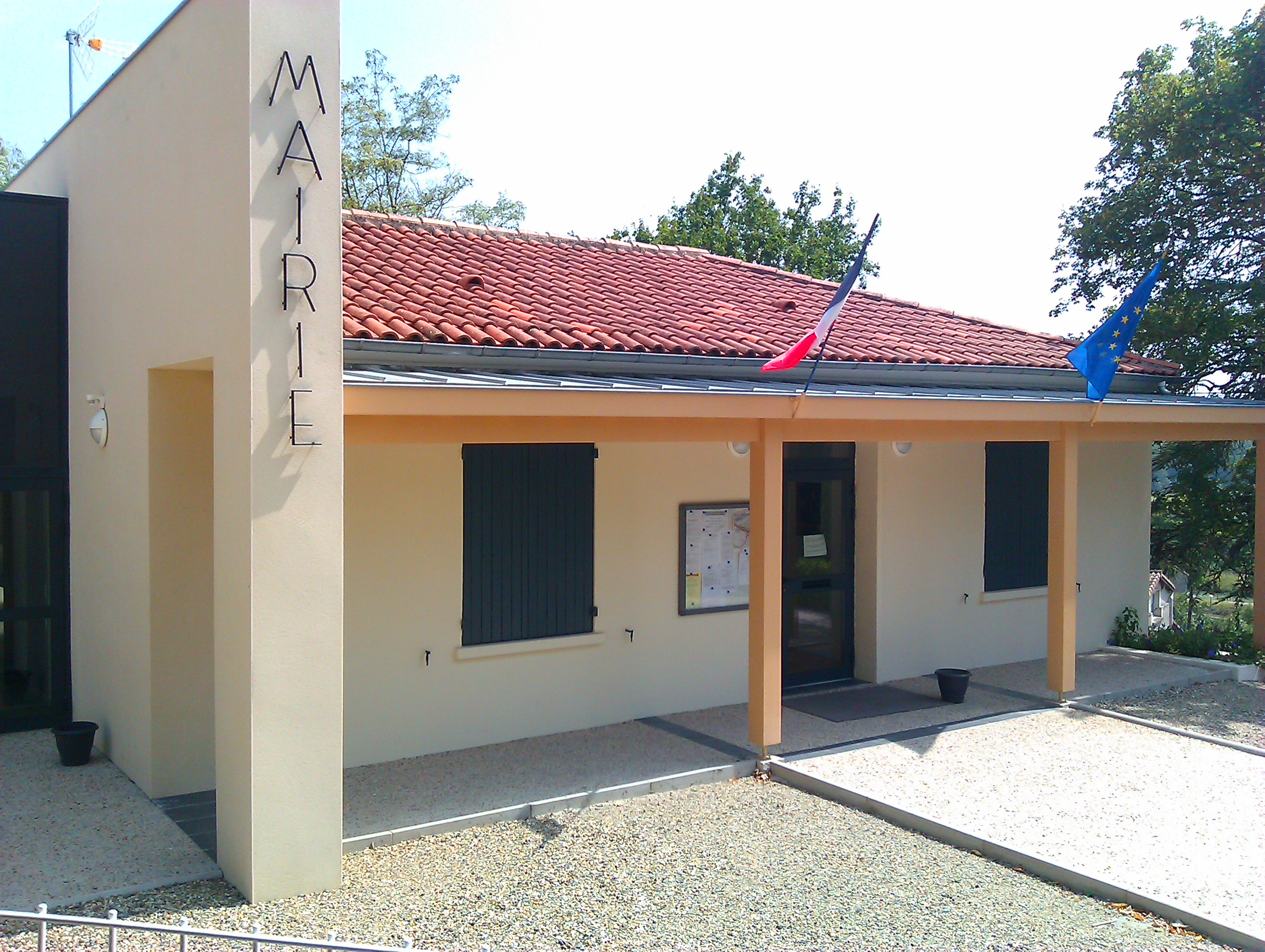 Photograph of the town hall at St Jean de Thurac in France.